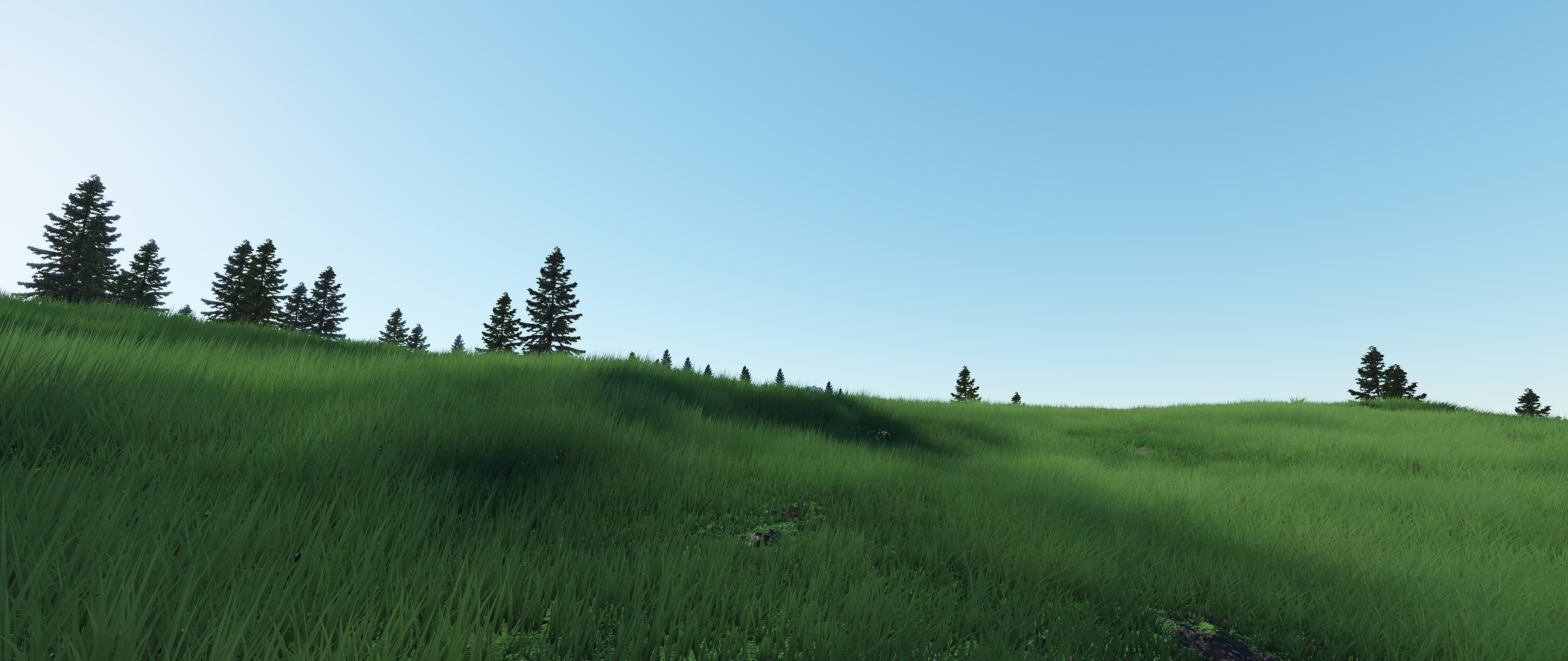 Outerra Anteworld | Downsampled 5120x2160 | Custom FOV | TOD adjustment 3D planetary engine for seamless planet rendering from space down to the surface. Can use arbitrary resolution of elevation data, refining it to centimeter resolution using fractal algorithms. Unlimited visibility, progressive download of data, procedural content generation. Integrated vehicle and aircraft physics engines. Embedded web browser for web service integration and more.